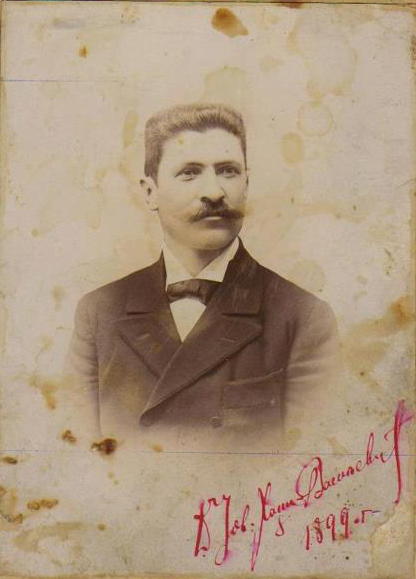 Јован Хаџи-Васиљевић 1899